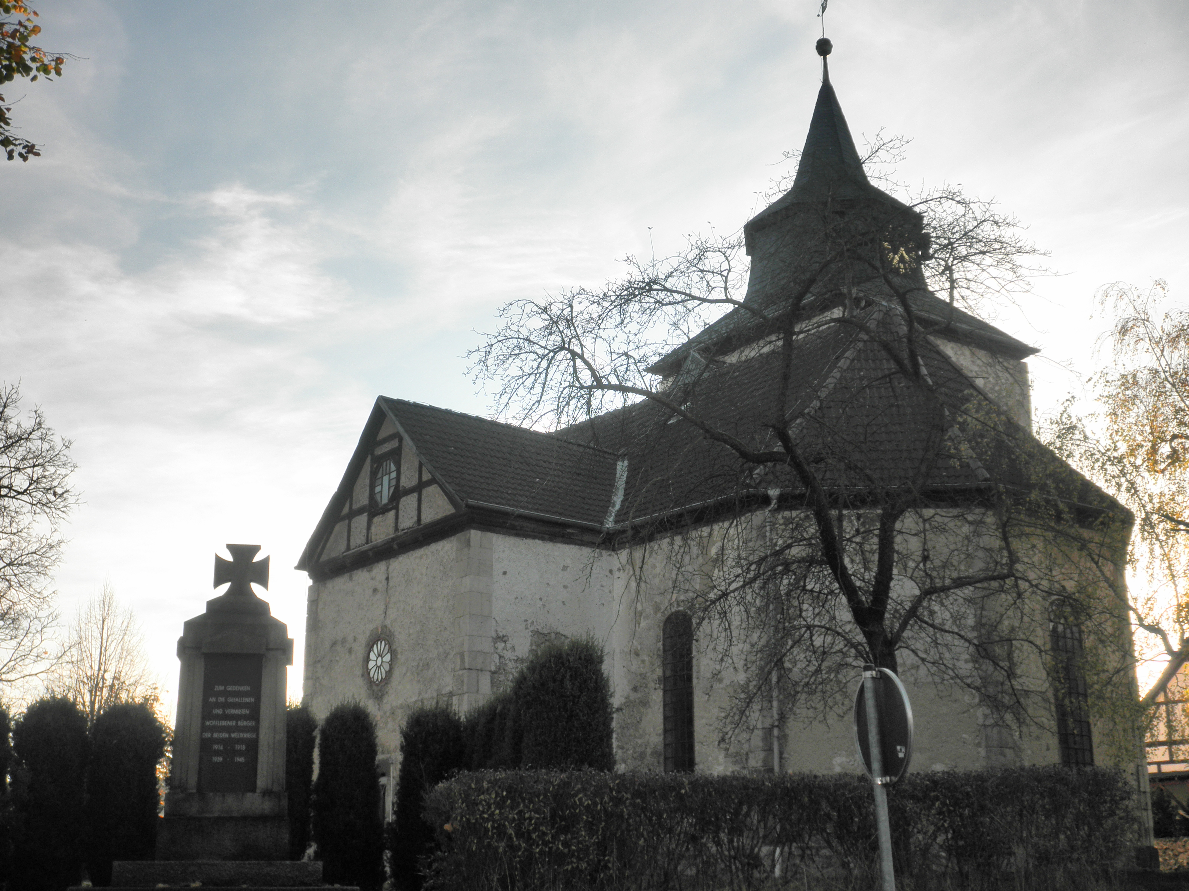 Church in Woffleben in Thuringia